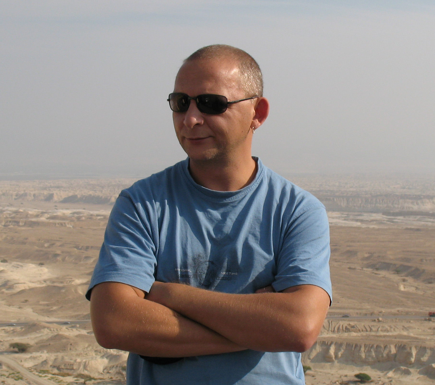 Oleg Kuvaev. Animator, cartoonist, artist, author of "Masyanya" animated series